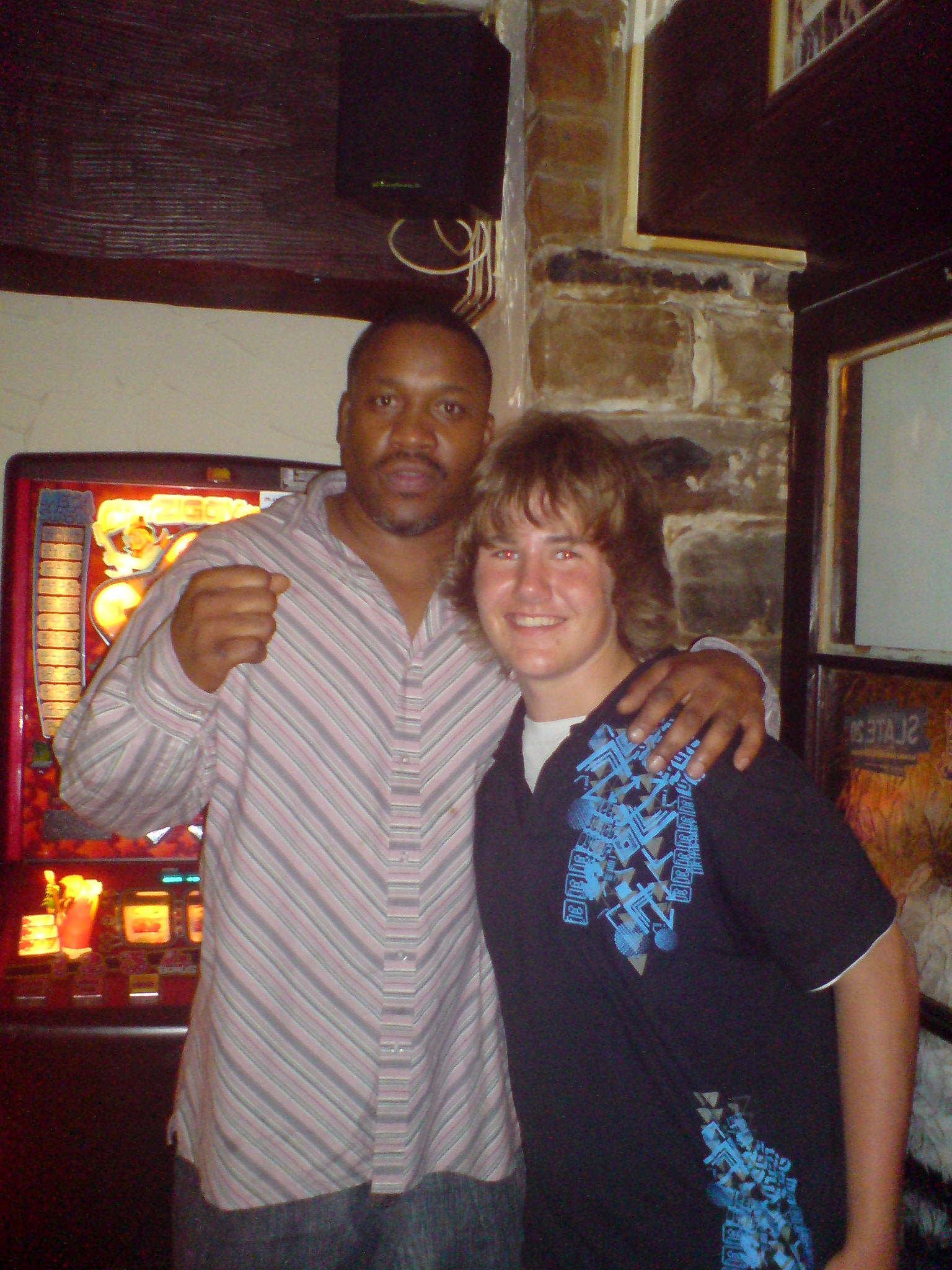 American boxer Tim Witherspoon (left).